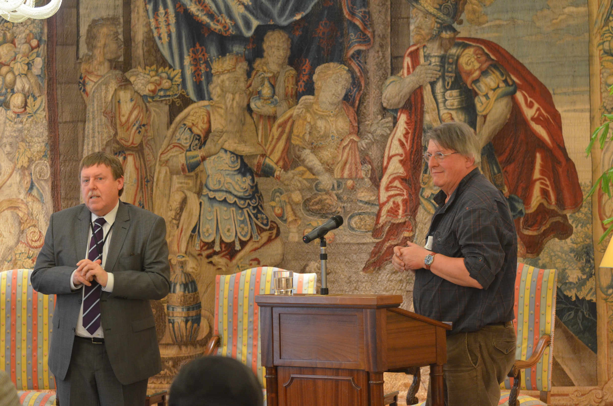 Wikimedia Belgium, foundation event